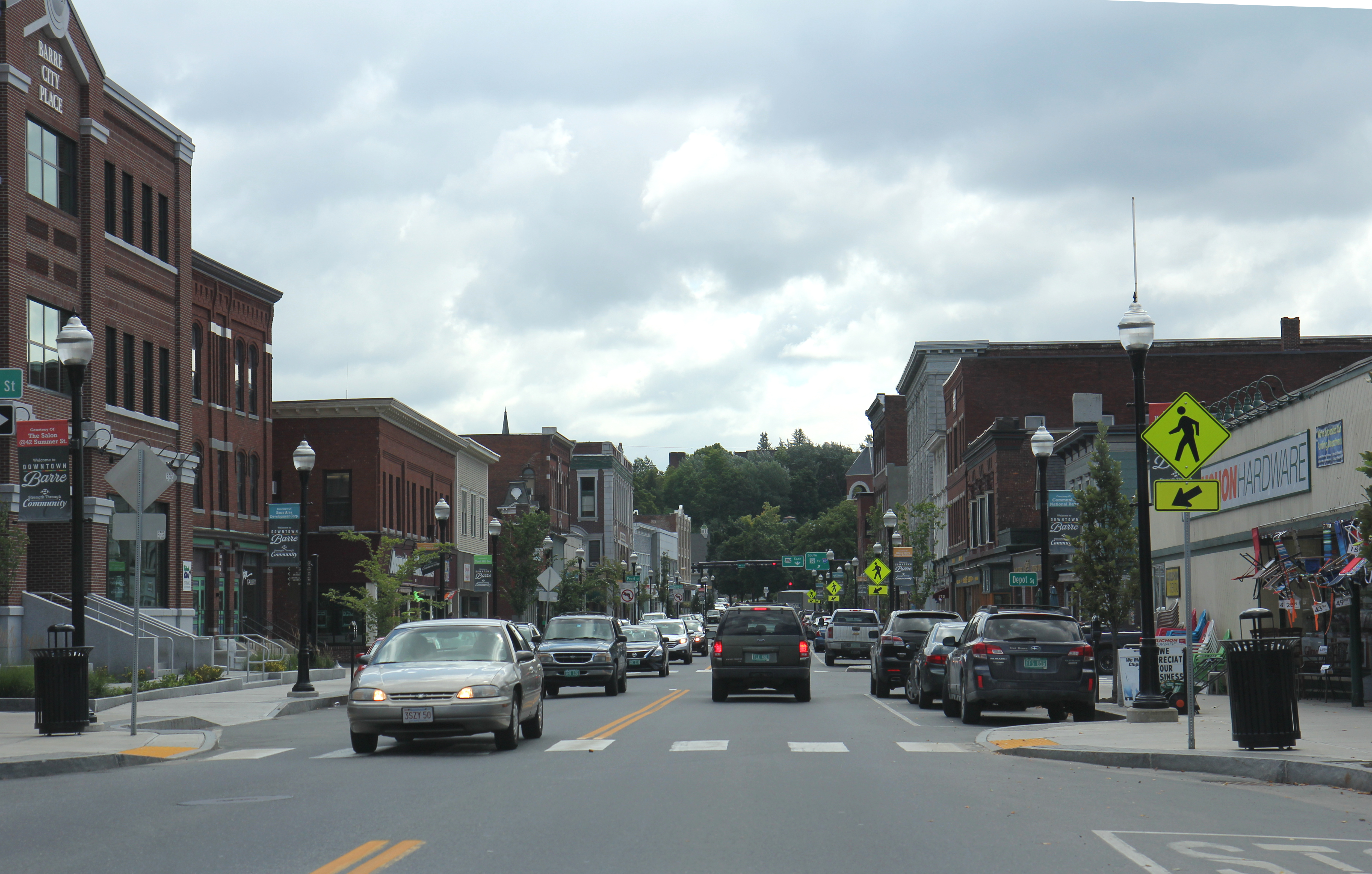 downtown Barre, Vermont on VT14